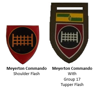 SADF Meyerton Commando insignia